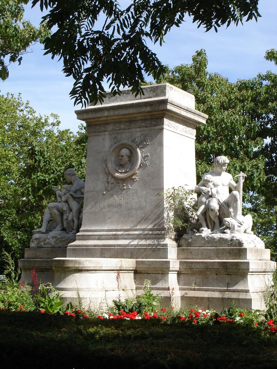 Memorial to Barye, sculpted by Laurent Marqueste. The two groups are copies of those by Barye in the Louvre. The missing bronze group Thésée fighting the centaur Biénor by Barye which surmounted the pedestal and the bronze lion on the semicircular base were melt during WWII by the Germans. On May 6th 2011, a new but slightly smaller cast of the bronze group Thésée fighting the centaur Biénor has been resettled on the top of the monument. Square Barye on Boulevard Henri IV, near the Sully Bridge in Paris (4th arrondissement).